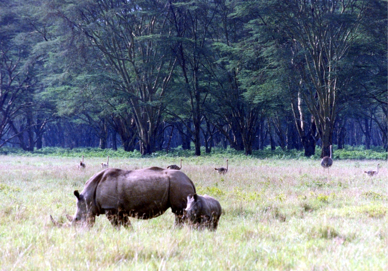 White Rhinoceroses in Lake Nakuru National Park, Kenya The image is a scan of an old film print. Photograped by Brocken Inaglory